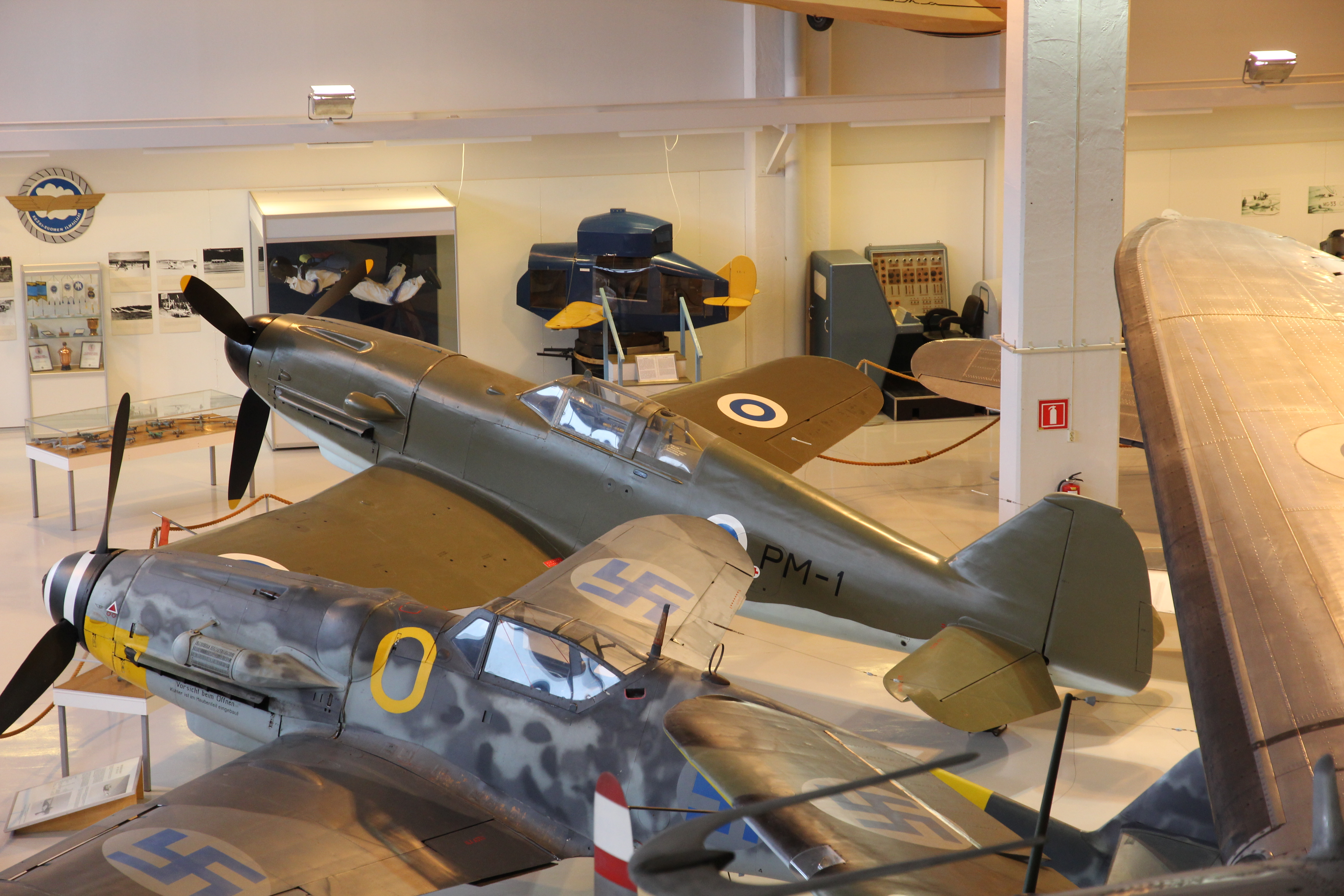 Finnish Pyörremyrsky fighter prototype (PM-1) in the Aviation Museum of Central Finland.